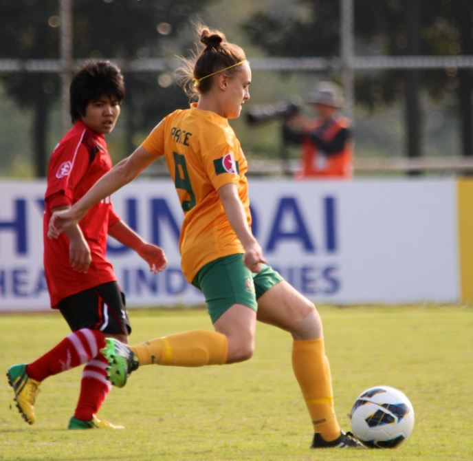 Olivia playing for Australia